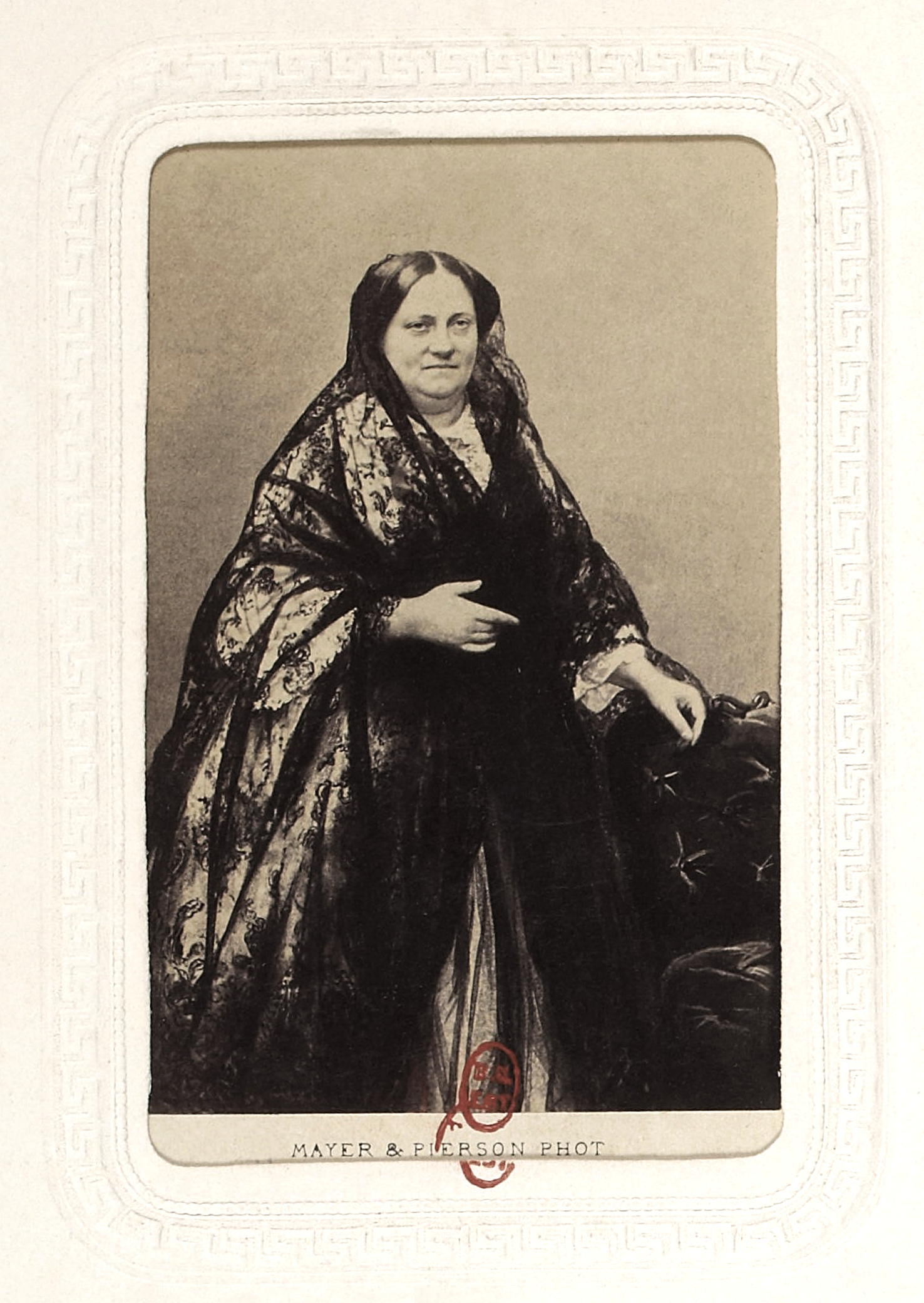 Maria Christina of the Two Sicilies (1806-1878), Queen consort of Spain, fourth wife and widow of Ferdinand VII of Spain, regent of the kingdom, and mother of Queen Isabella II.